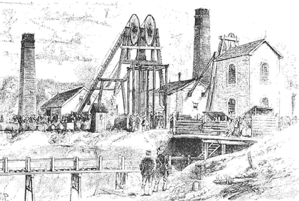 People congregating at Pendleton Colliery in Lancashire, England, after the 1870 accident From the Illustrated London News, 20 October 1877.